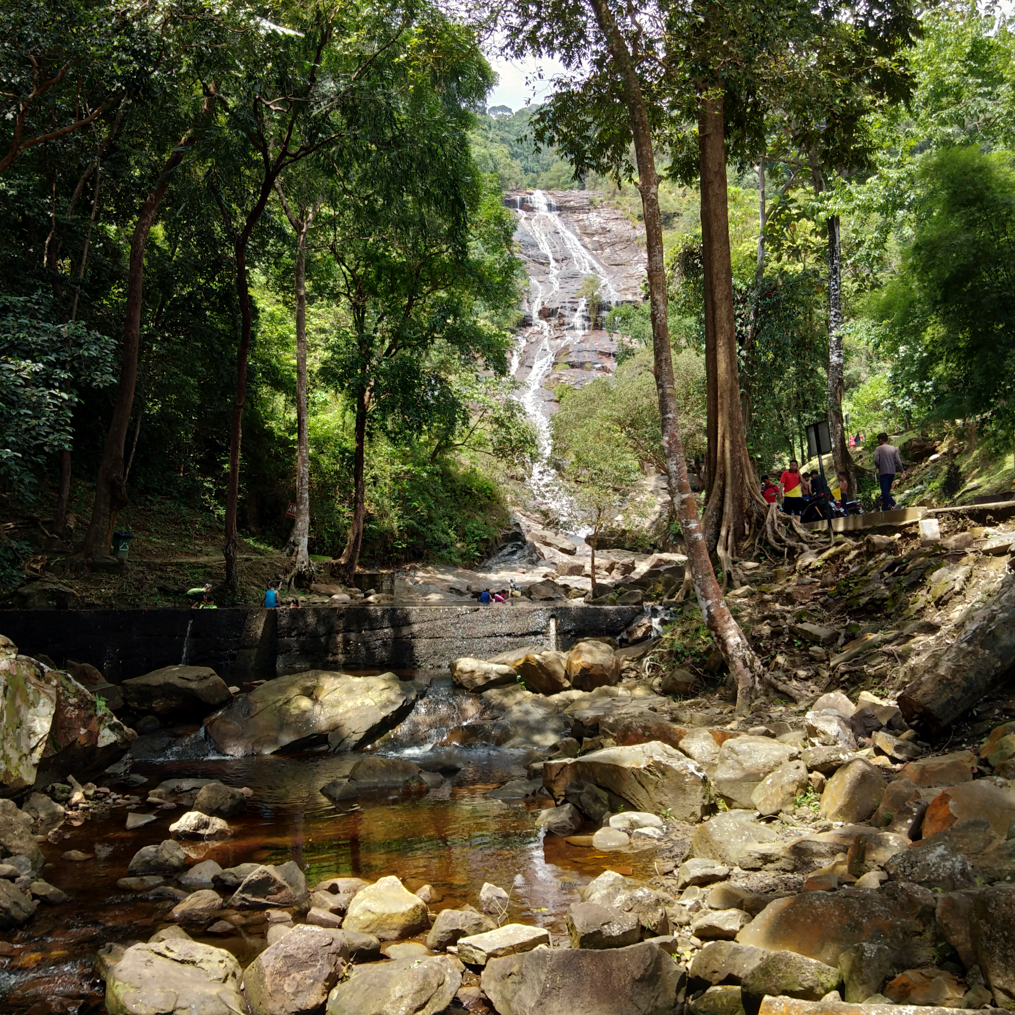 Picnic area at Seri Perigi waterfall